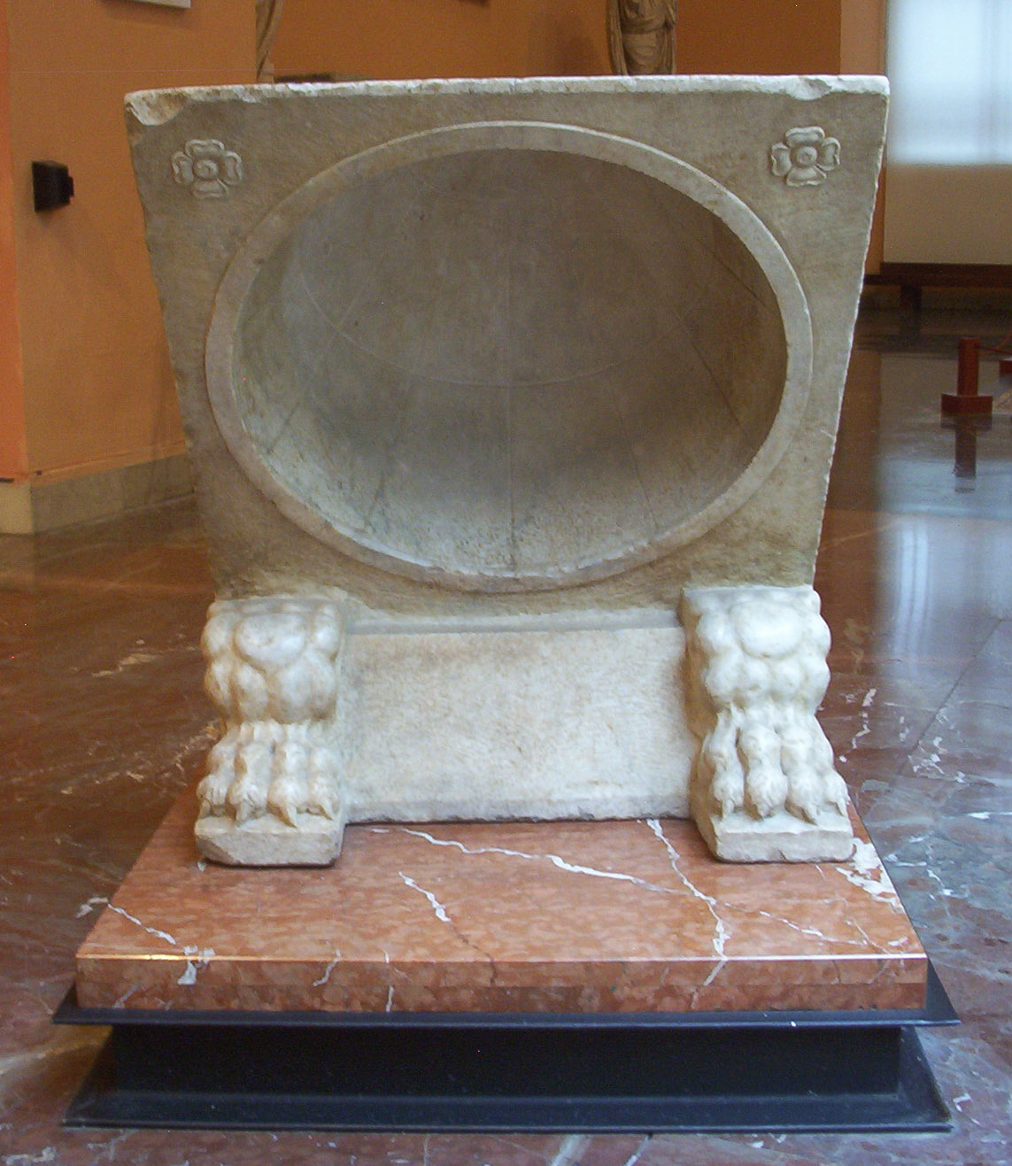 Roman sundial. Through a drill hole in a metal piece at the top (not seen), a light beam is projected on the half-sphere.